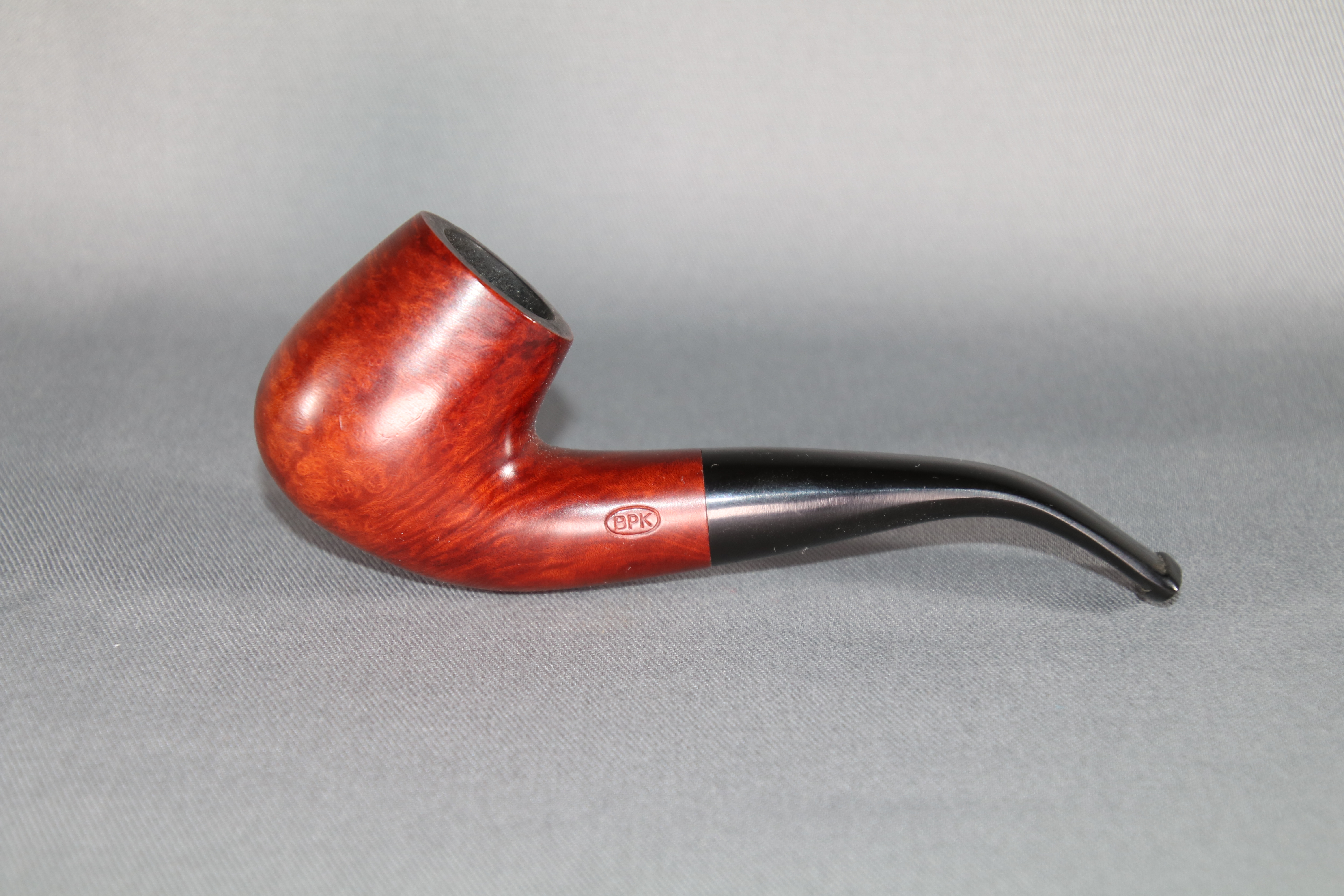 Bent (Billard) shape smoking pipe. BPK 73-31F. Smooth briar bowl. Ebonite stem.